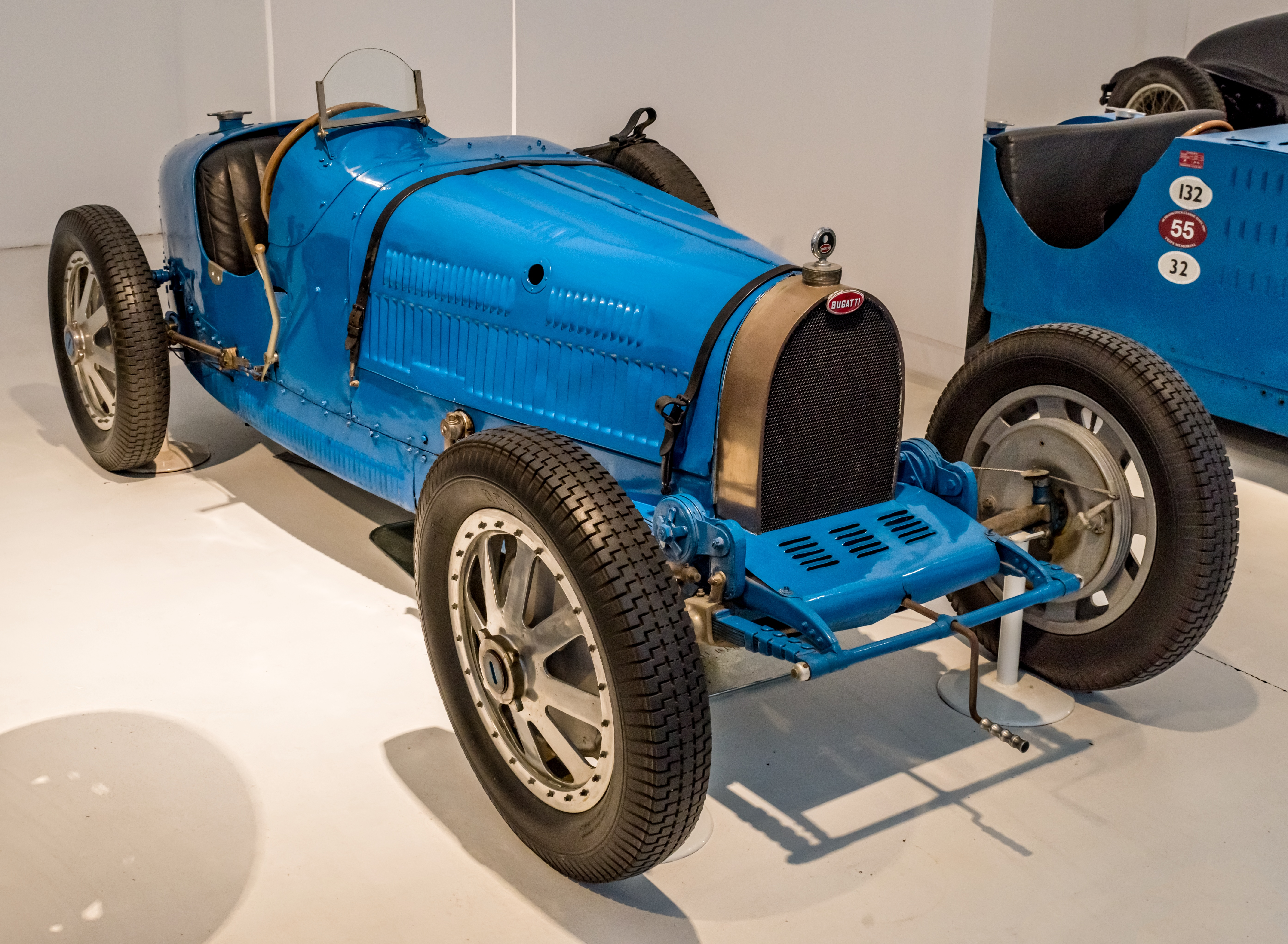 pictures from the Cité de l’Automobile – Musée National – Collection Schlump in Mulhouse, France ptictures from the 10. may 2018